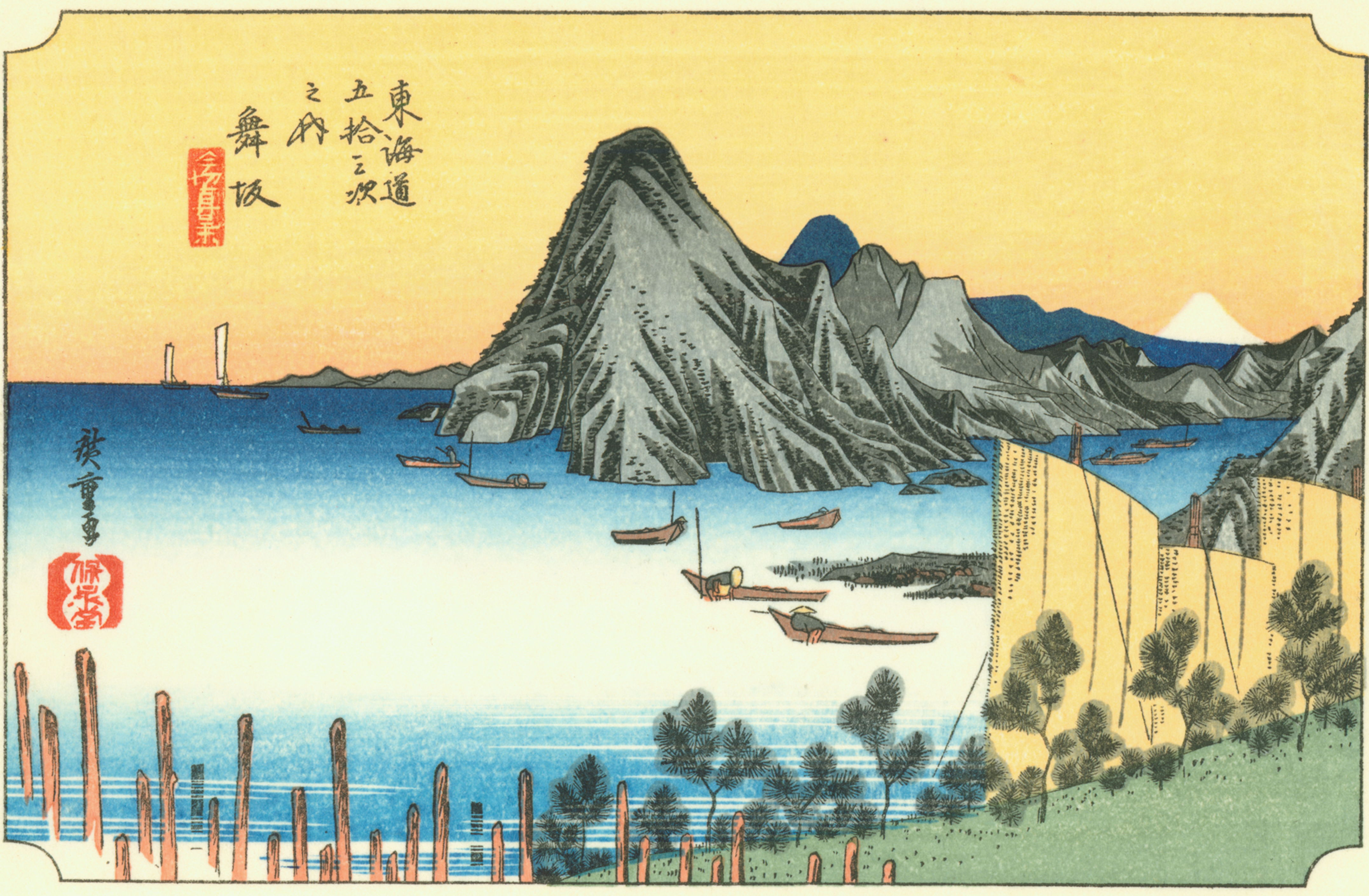 Maisaka-juku (Maisaka station) in the 1830s, as depicted by Hiroshige. "View of Imagiri“ (Imagiri shinkei, 今切真景); variant c; publisher seal Hoeidō (保永堂). Wood-block print, reproduction from a miniature edition by Takamizawa, Japan